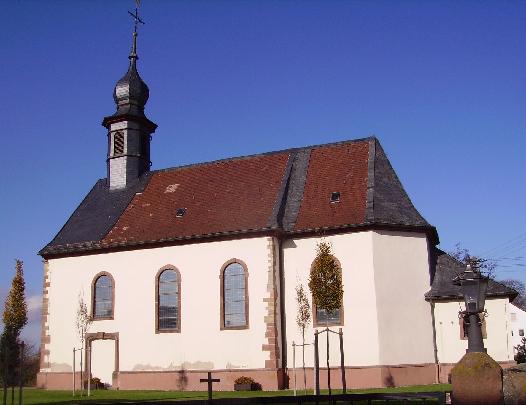 Ludwigshafen-Ruchheim, part of Ludwigshafen in Rhineland-Palatinate, Germany